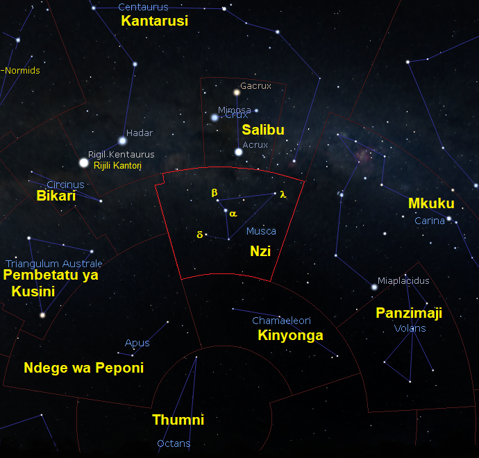 Constellation Musca as seen from Tanzania, Swahili labelled Kiswahili: Kundinyota Nzi (Musca) jinsi inavyoonekana kutoka Tanzania, majina kwa Kiswahili